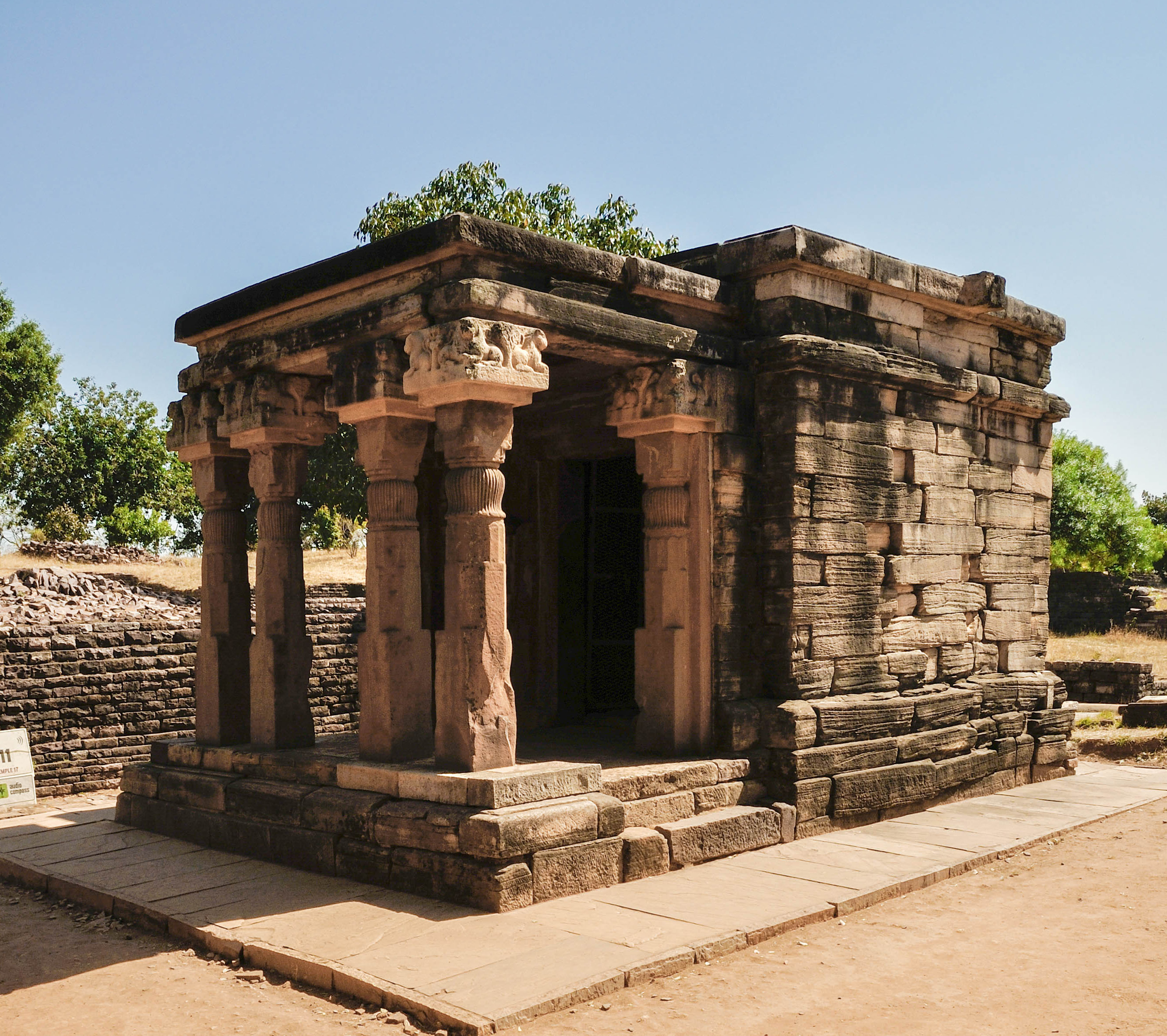 Temple 17. Buddhist monument . Sanchi, Madhya Pradesh, India.